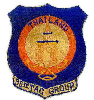 Emblem of USAF 35th Tactical Group